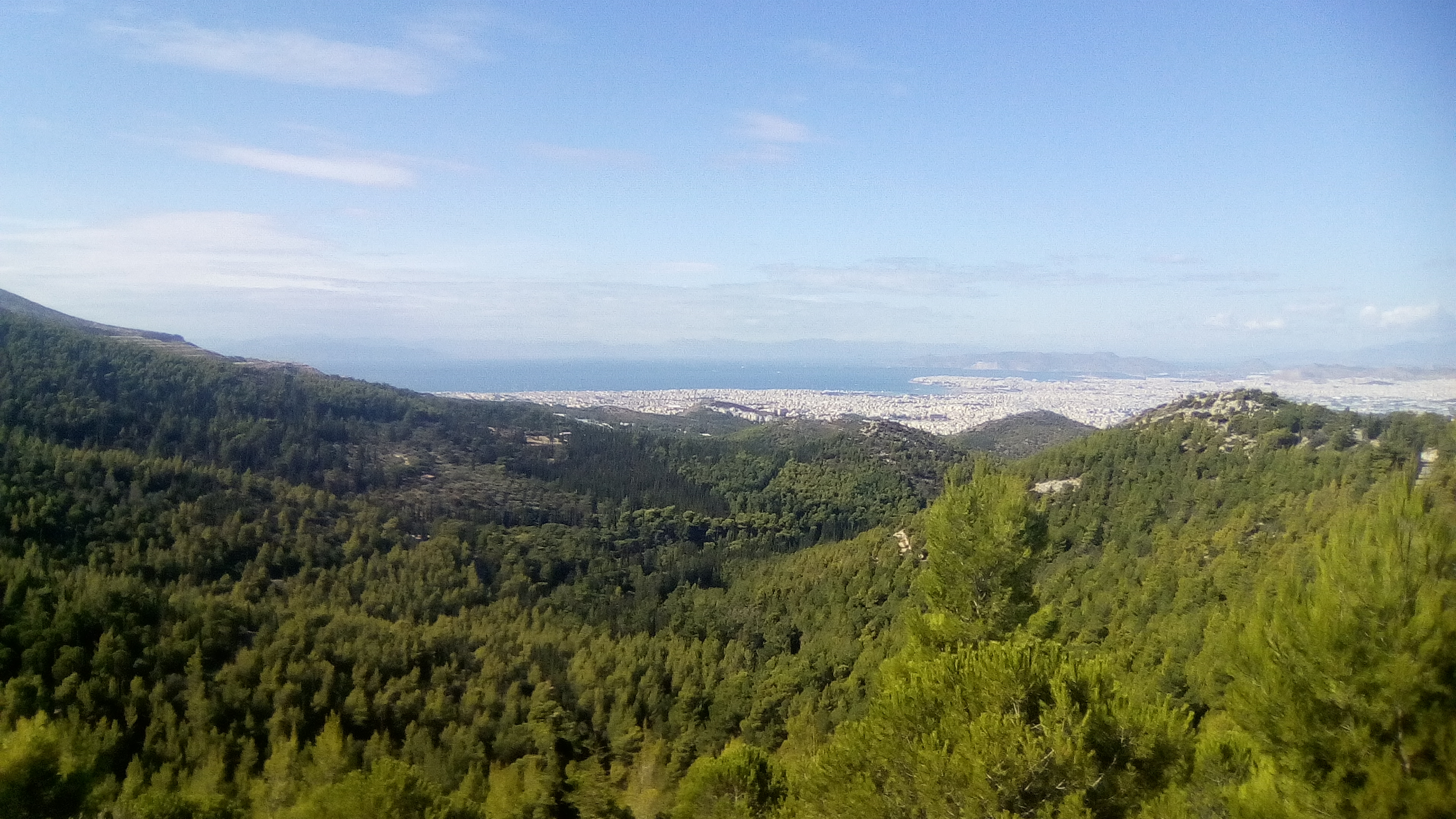 Saronikos gulf and Salamina island are viewed, too.